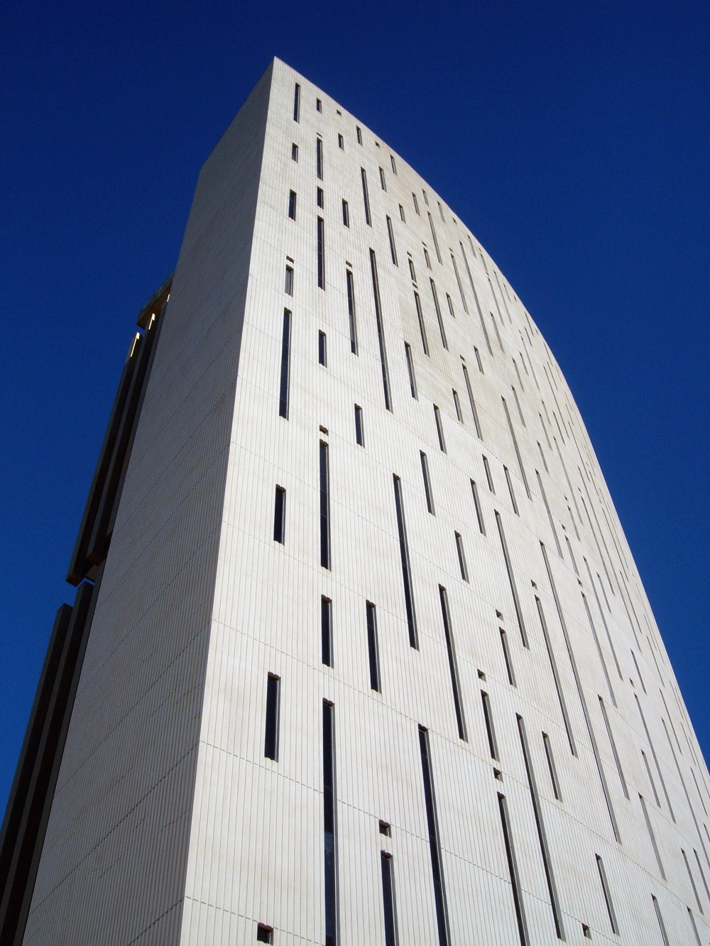 Photograph of the top of the Phoenix Financial Center tower building, in Phoenix, Arizona. View of the south facing facade of the tower.